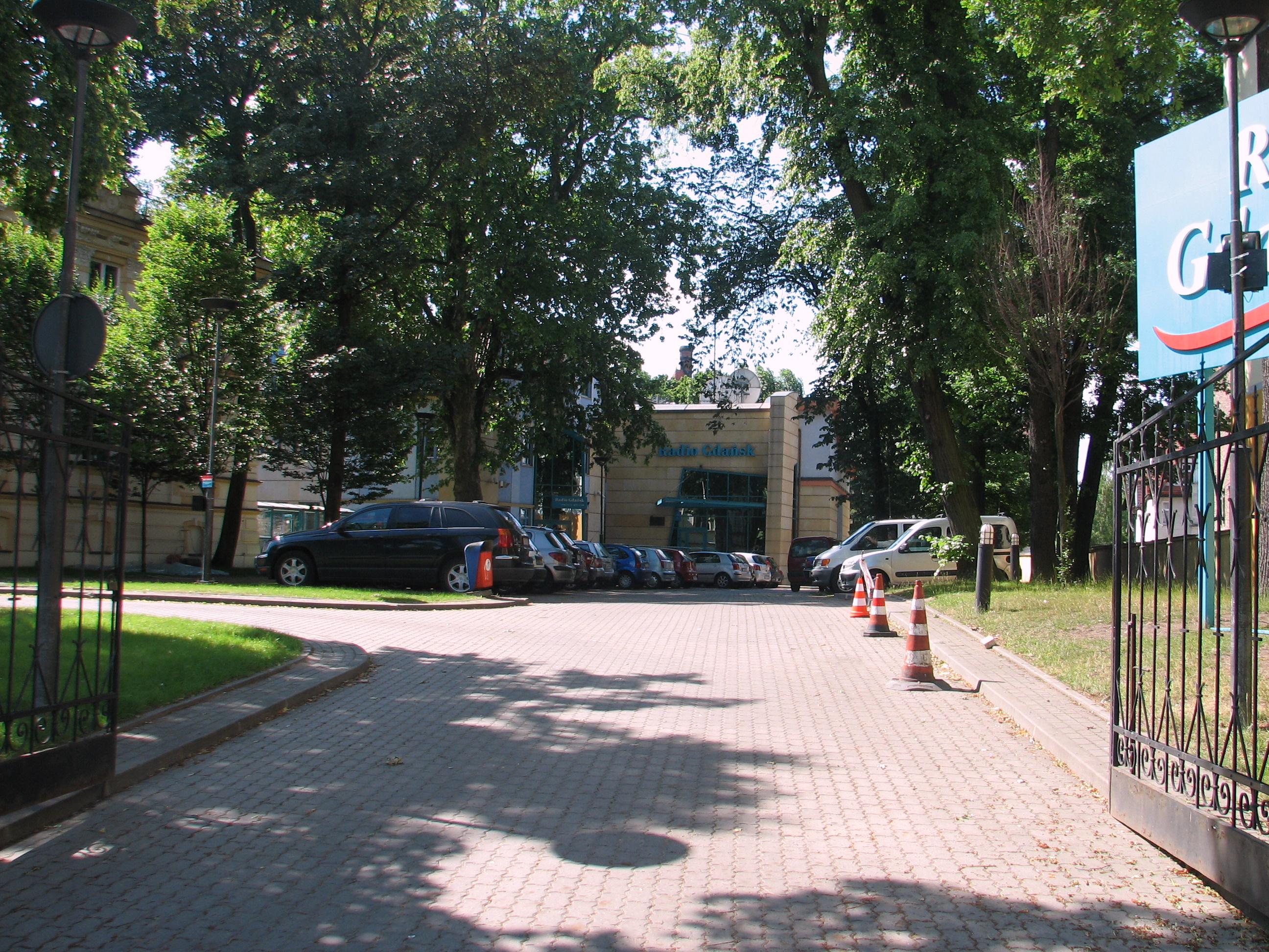 Headquarter of Radio Gdańsk.